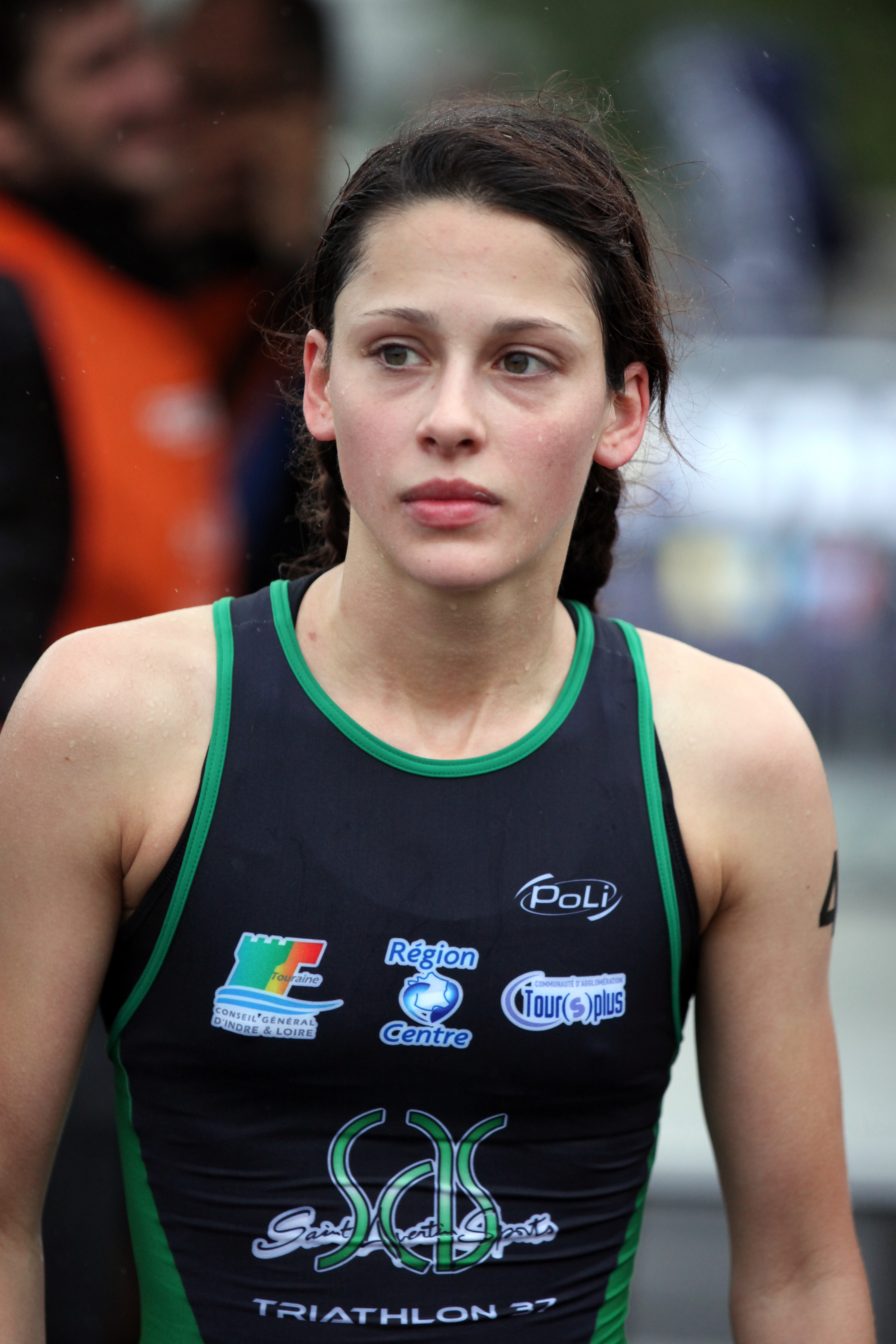 Hannah Drewett at the French D1 Club Championship triathlon (Lyonnaise des Eaux / Grand Prix de Triathlon) in Paris.